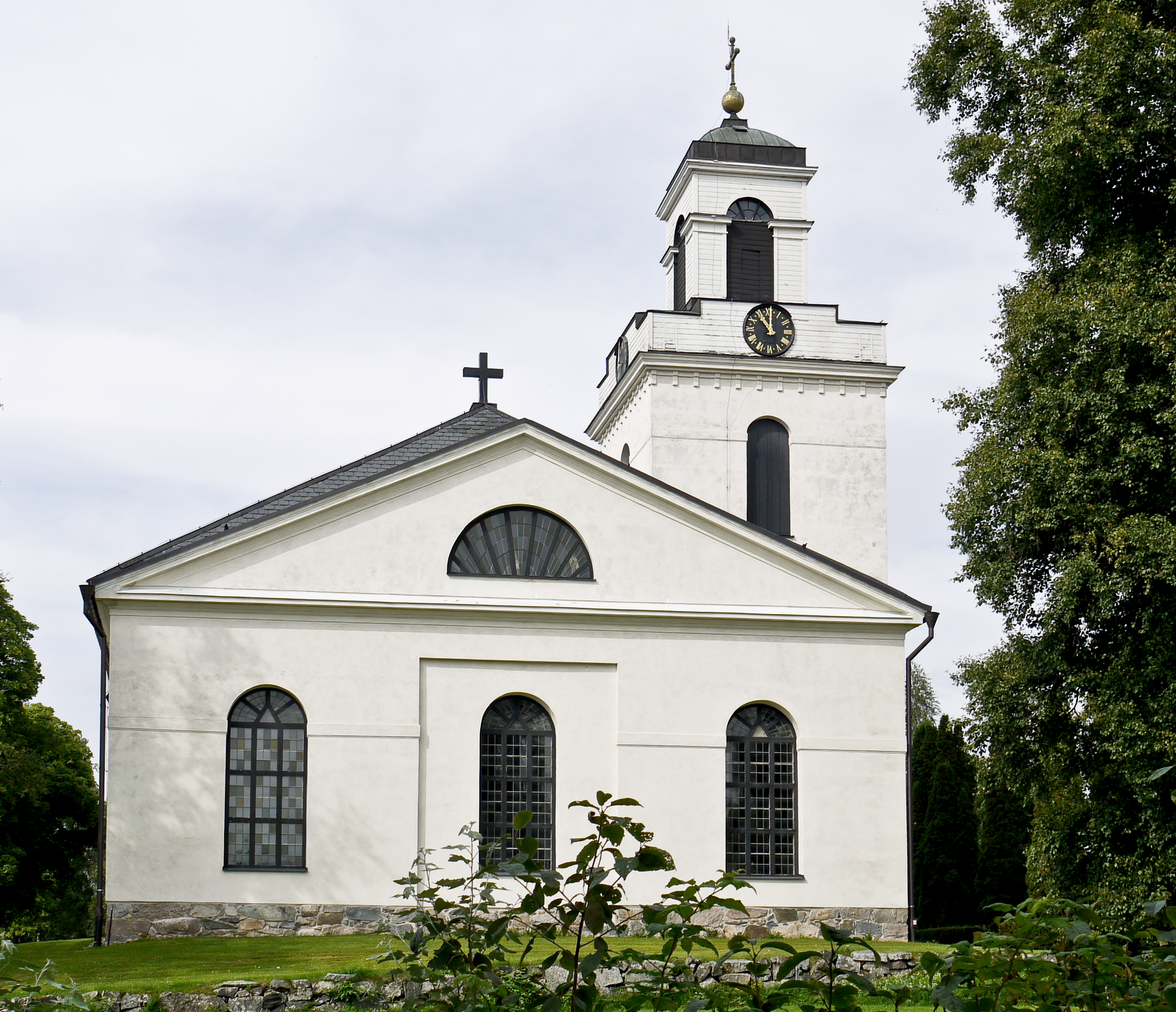 Bjursås kyrka/church. Diocese of Västerås, Falu kommun, Sweden. View.